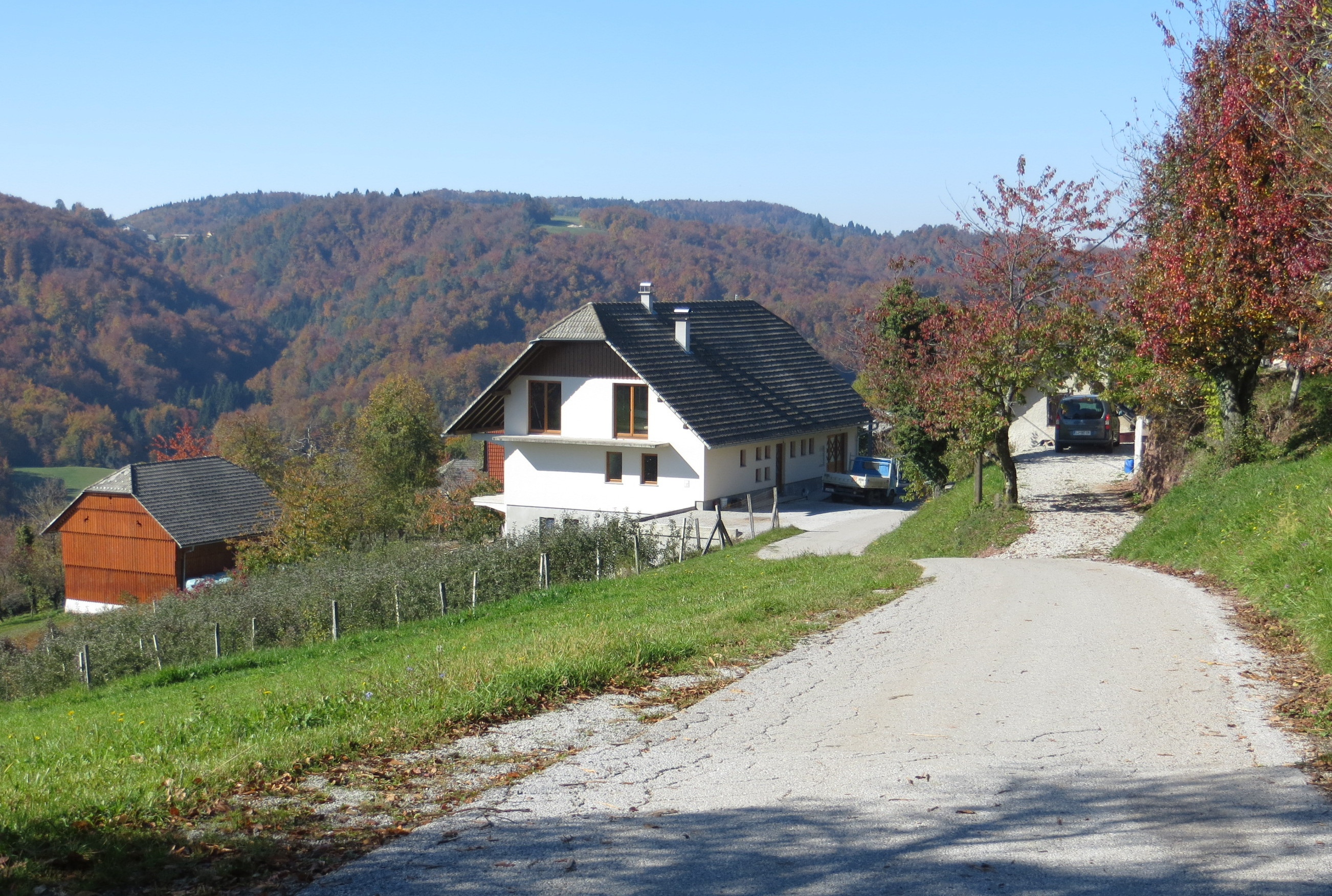 Poljane pri Stični, Municipality of Ivančna Gorica, Slovenia